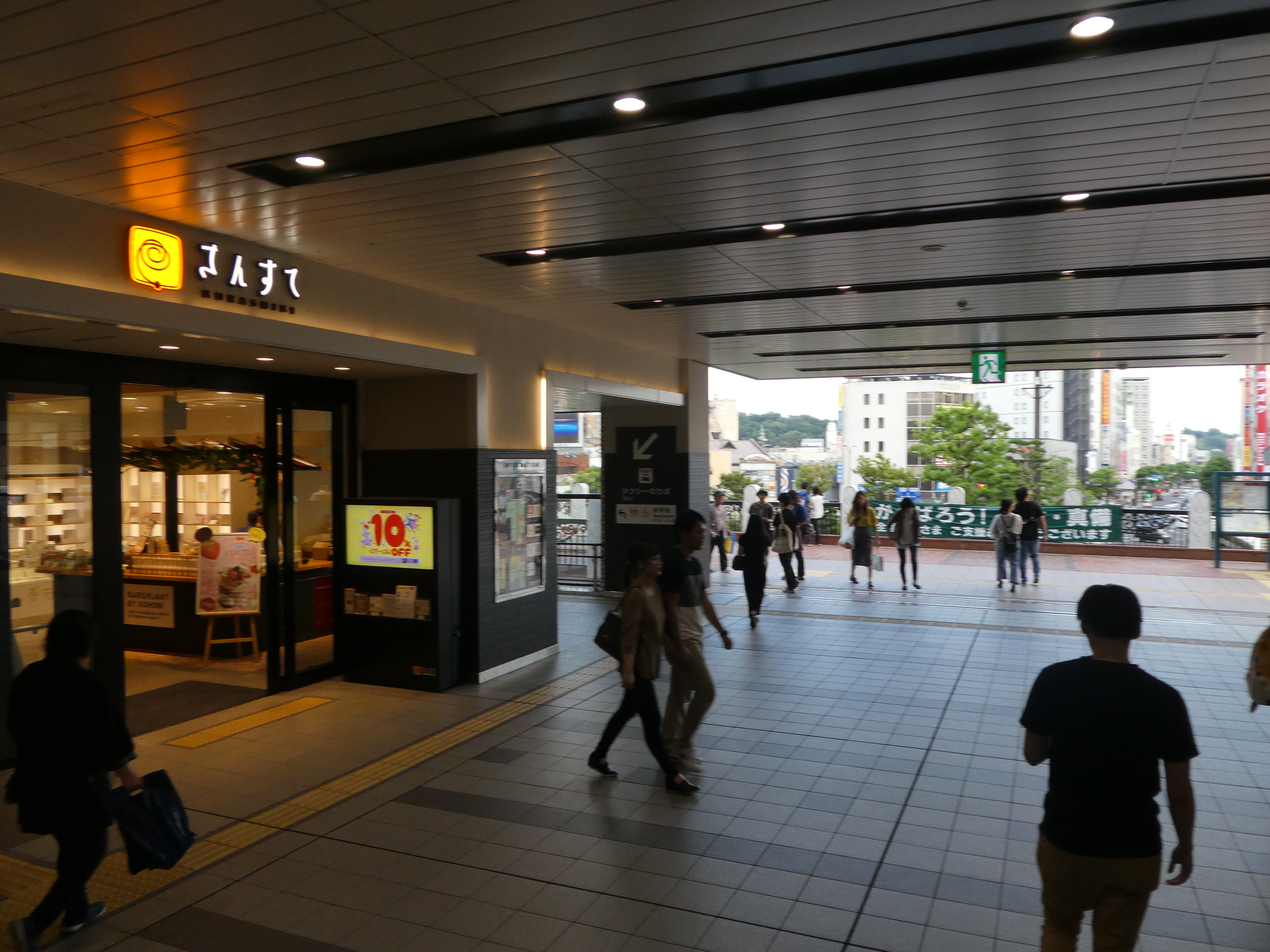 It is an image of the entrance of Sun Station Terrace Kurashiki eastern zone.